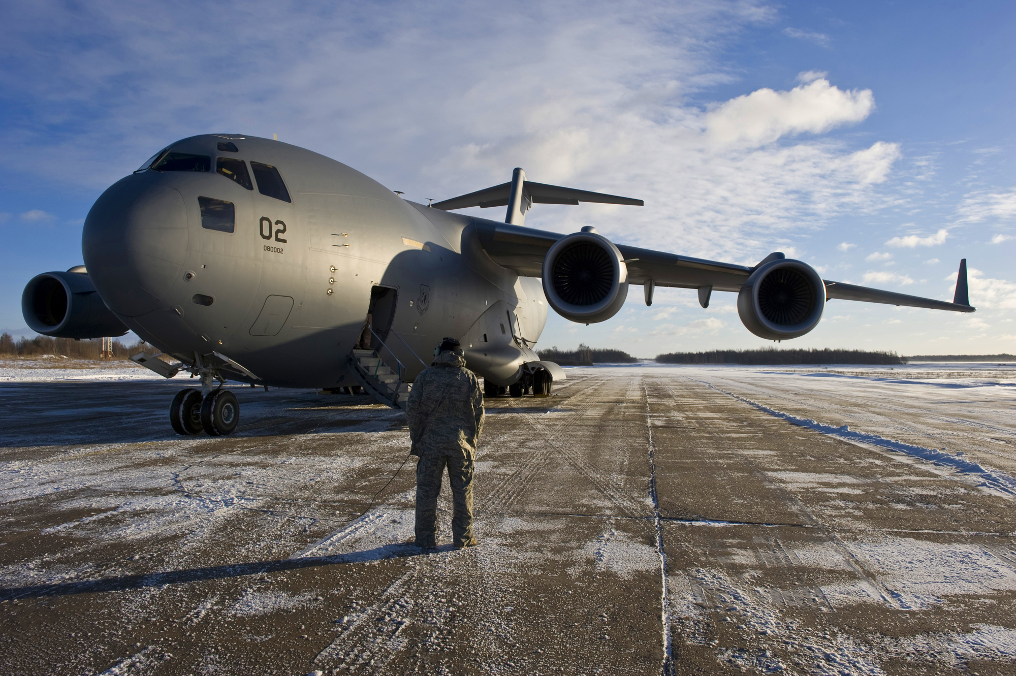 U.S. Air Force Tech. Sergeant Joseph Johns, flying crew chief from Papa, Hungary communicates with the C-17 Globemaster III pilots while on an airfield in Lithuania, Dec. 10, 2010. The three-day mission will span over 7000 miles covering countries of Hungary, Poland, Afghanistan and Lithuania with over 75,000 tons of cargo.